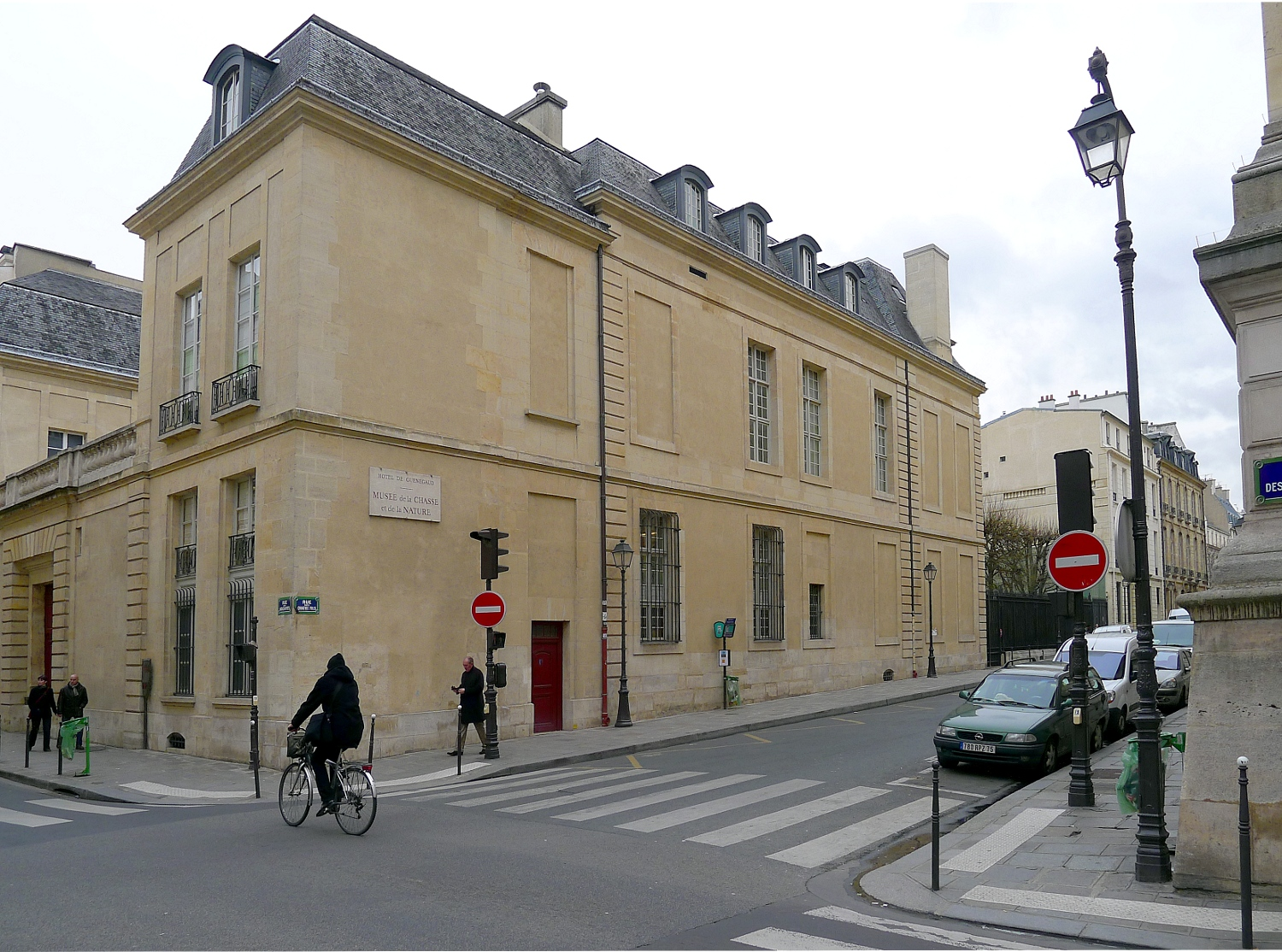 Archives street - Paris